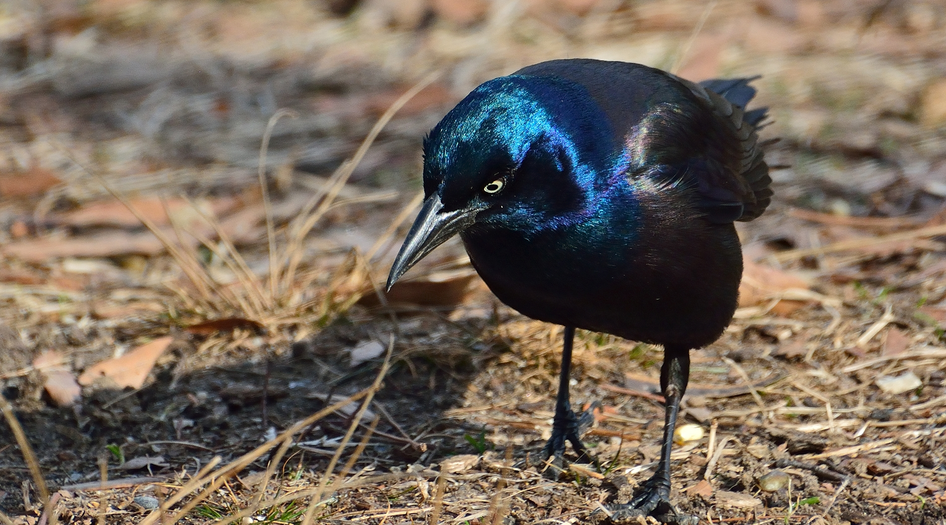 Common Grackle Quiscalus quiscula, Central Park, New York, USA.